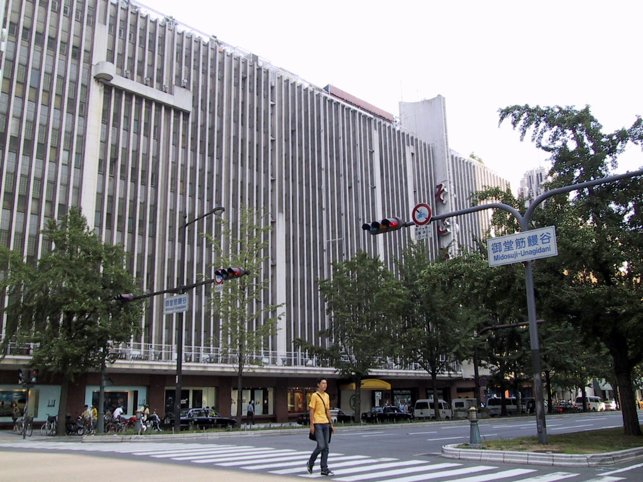 SOGO Osaka, 1-8-3 Shinsaibashisuji, Chuo-Ku, Osaka City, Osaka, Japan.